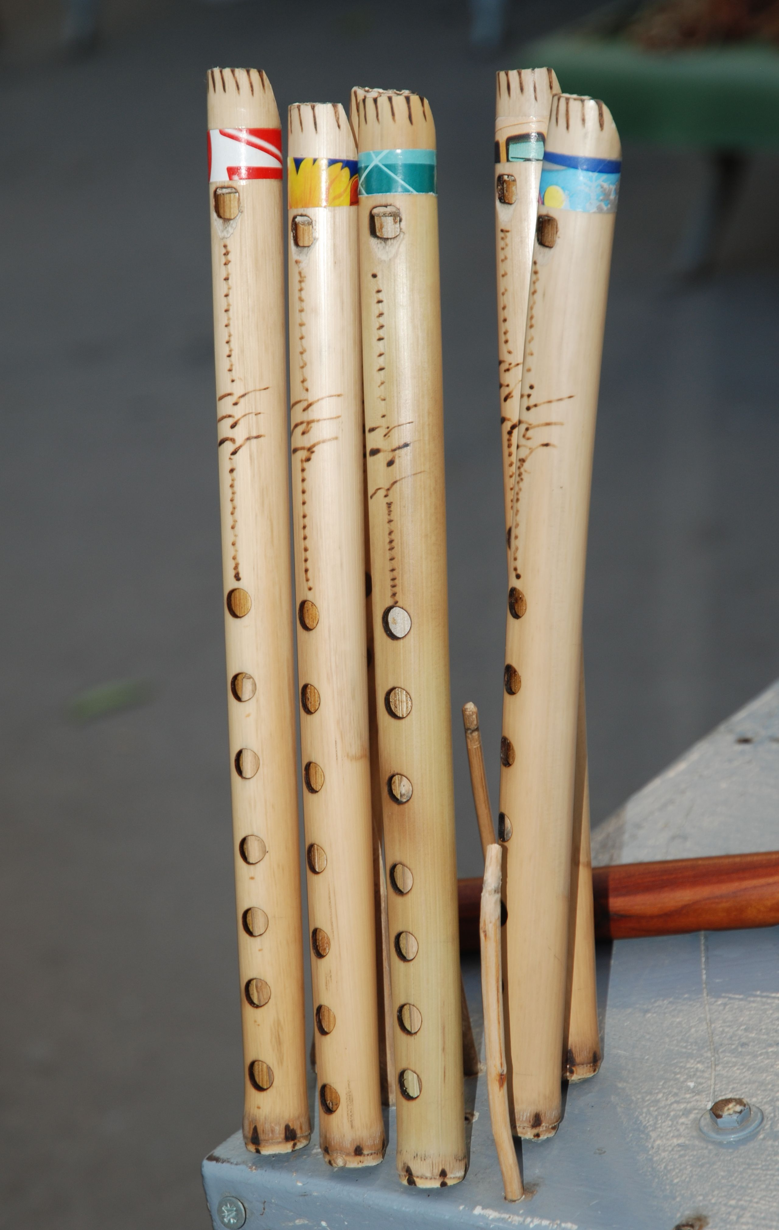 Shvi, Armenian flute